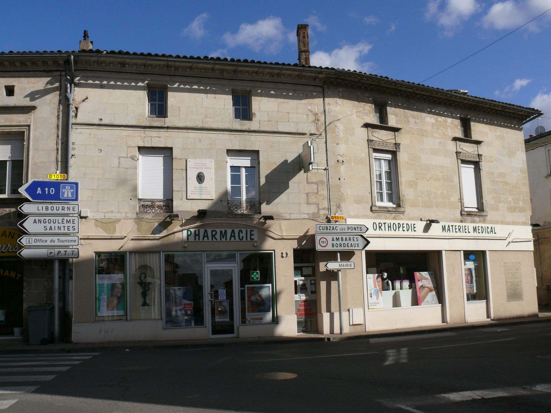 The born house of Jacques-Yves Cousteau, in Saint-André-de-Cubzac (Gironde, Aquitaine, France).